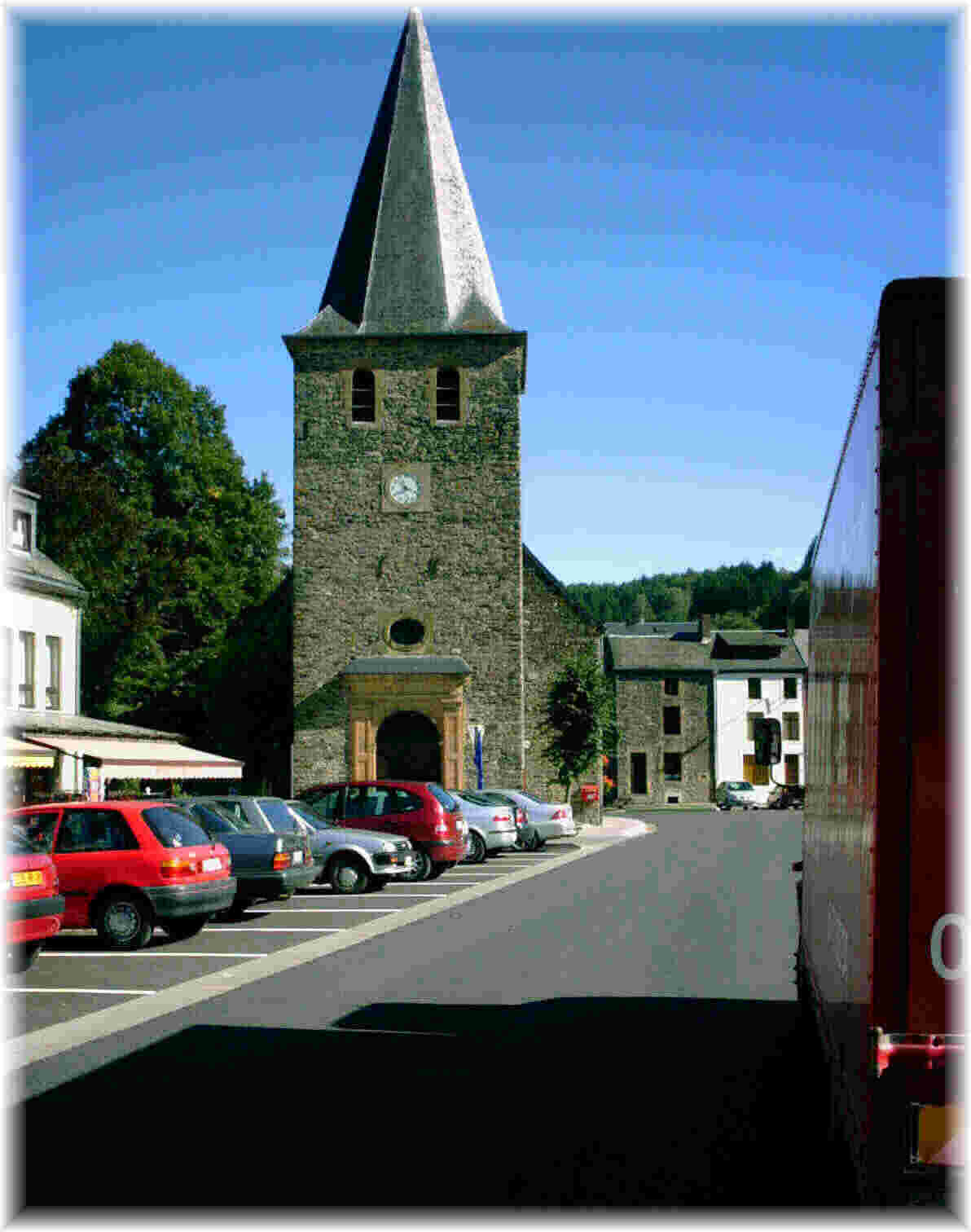 I am the owner of the file and photo and the website. Photo owned by Hans Hilberink @ I am the owner of the file and photo and the website. Photo owned by Hans Hilberink @